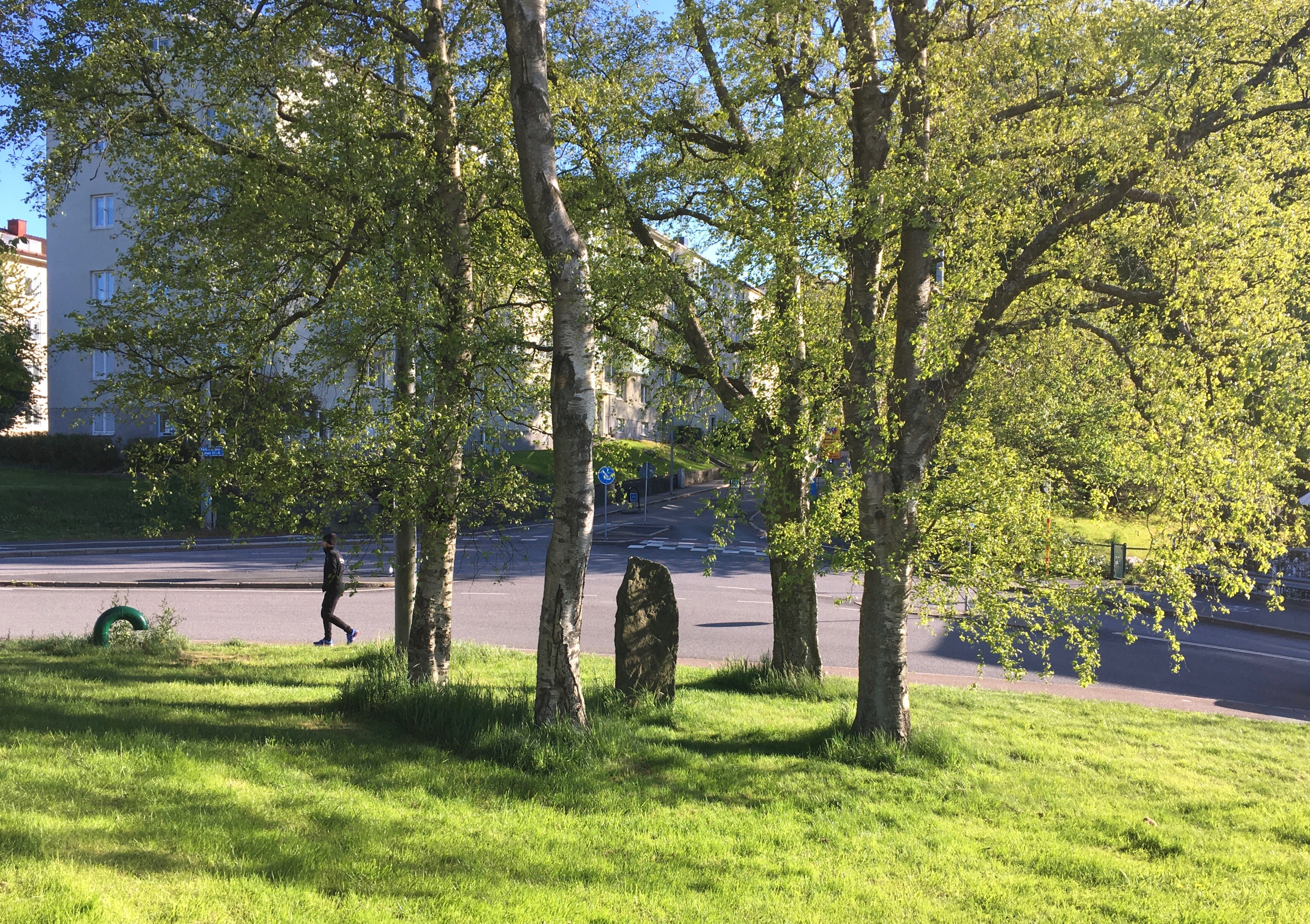 The cholera graveyard in Lunden, Gothenburg, established in 1834. Minnesmärke, L1969:687. Begravningsplats, L1969:688.